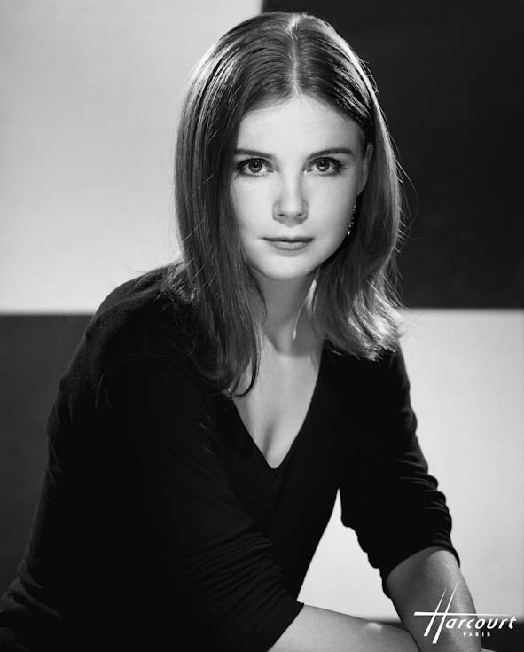 Isabelle Carré photographed by Studio Harcourt Paris